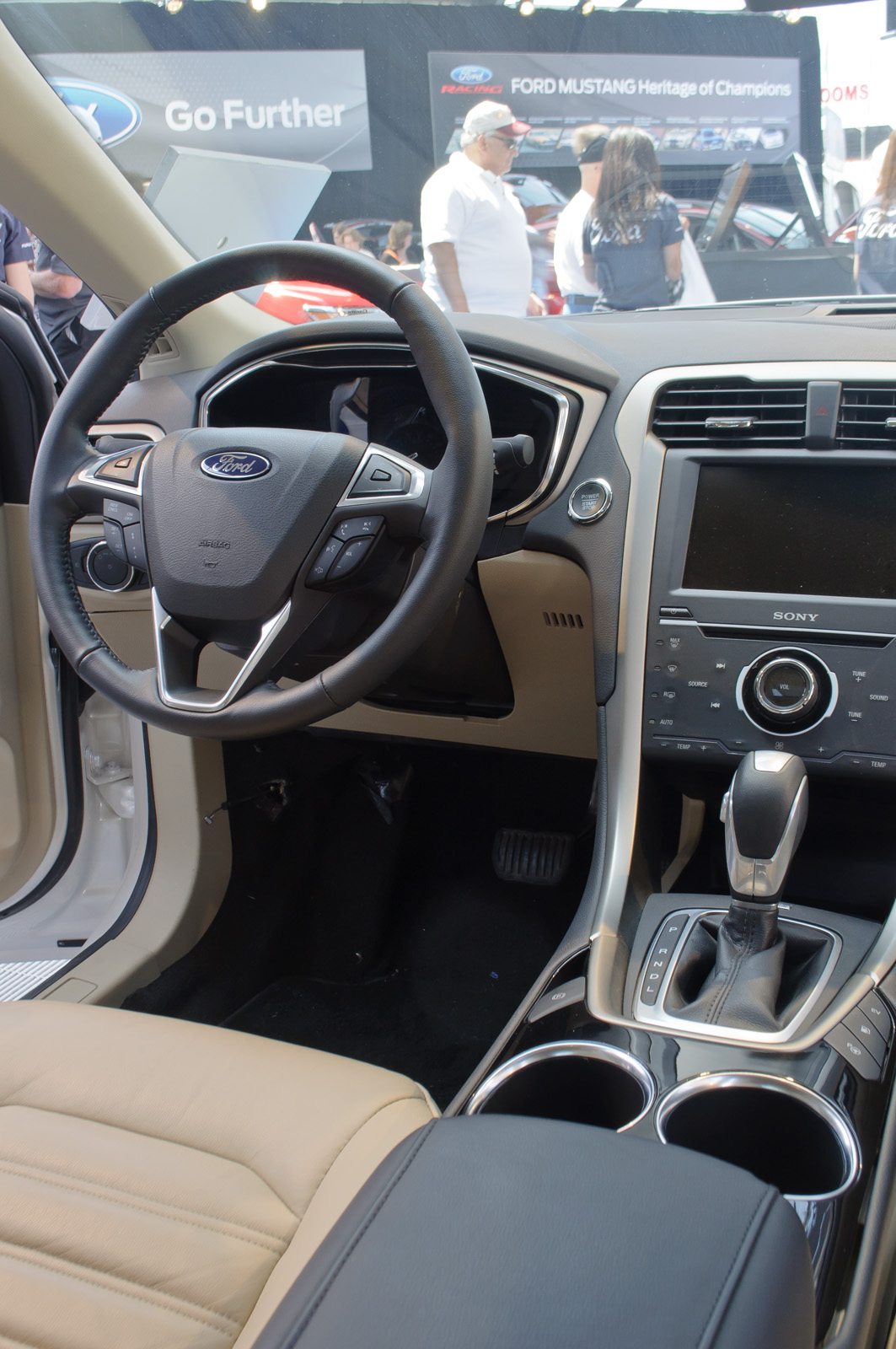 Coming soon: a redesigned Ford Fusion. Unlike the original 2006-2012 model which was a modified Mazda 6, this new Fusion will instead share its basic design with Ford's European large sedan, the Mondeo. And unlike the last US-market Mondeo (the Contour), which had been severely cheapened and compromised, this Fusion looks far more substantial and high-quality. This particular version, "Energi," is a plug-in hybrid. The Fusion will also offer a straightforward hybrid powertrain, as well as a normally aspirated gasoline engine powertrain and a pair of turbocharged EcoBoost engine powertrains. The V6 option will no longer be available, replaced by the EcoBoost turbo versions, following the footsteps of the competition at Chevrolet and Hyundai. At the Barrett-Jackson Auction's new car test drive area, I could find the outgoing 2012 Fusion for test drive; I actually found it to be quite pleasant and easy to drive. I hope the 2013 is an even better ride, and even though my previous luck with Ford was very rotten (thanks to the Contour) and I've had much better luck with Honda and Hyundai, I would really like to switch back to Ford if I can.